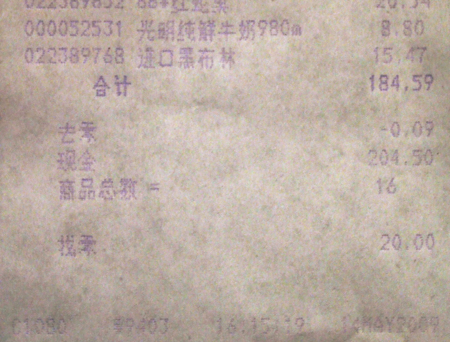 Bottom of a Chinese supermarket receipt, showing the following: Total 184.59 Swedish rounding -0.09 Paid 204.50 Change 20.00